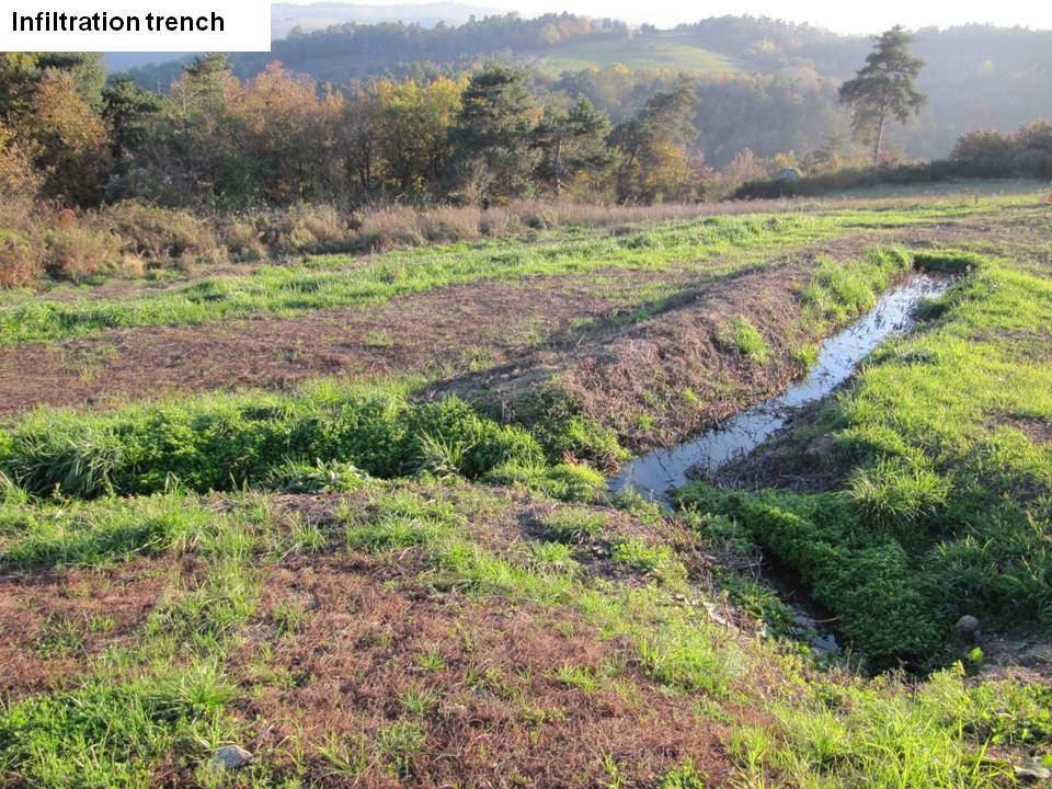 Treated effluent is infiltrated via a series of trenches. Direct dicharge into water bodies or infiltration via infiltration fields (buried drainage pipes) is also possible.